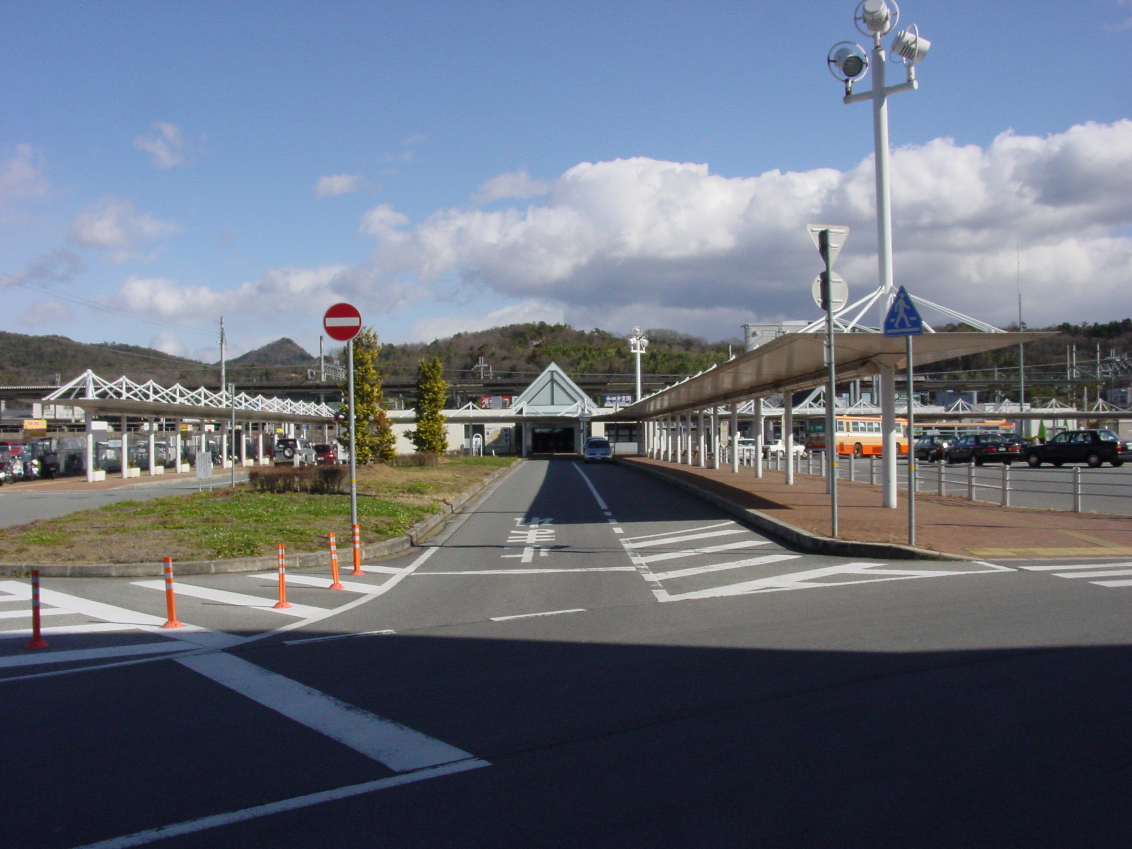 Shin-Sanda Station of West Japan Railway Company